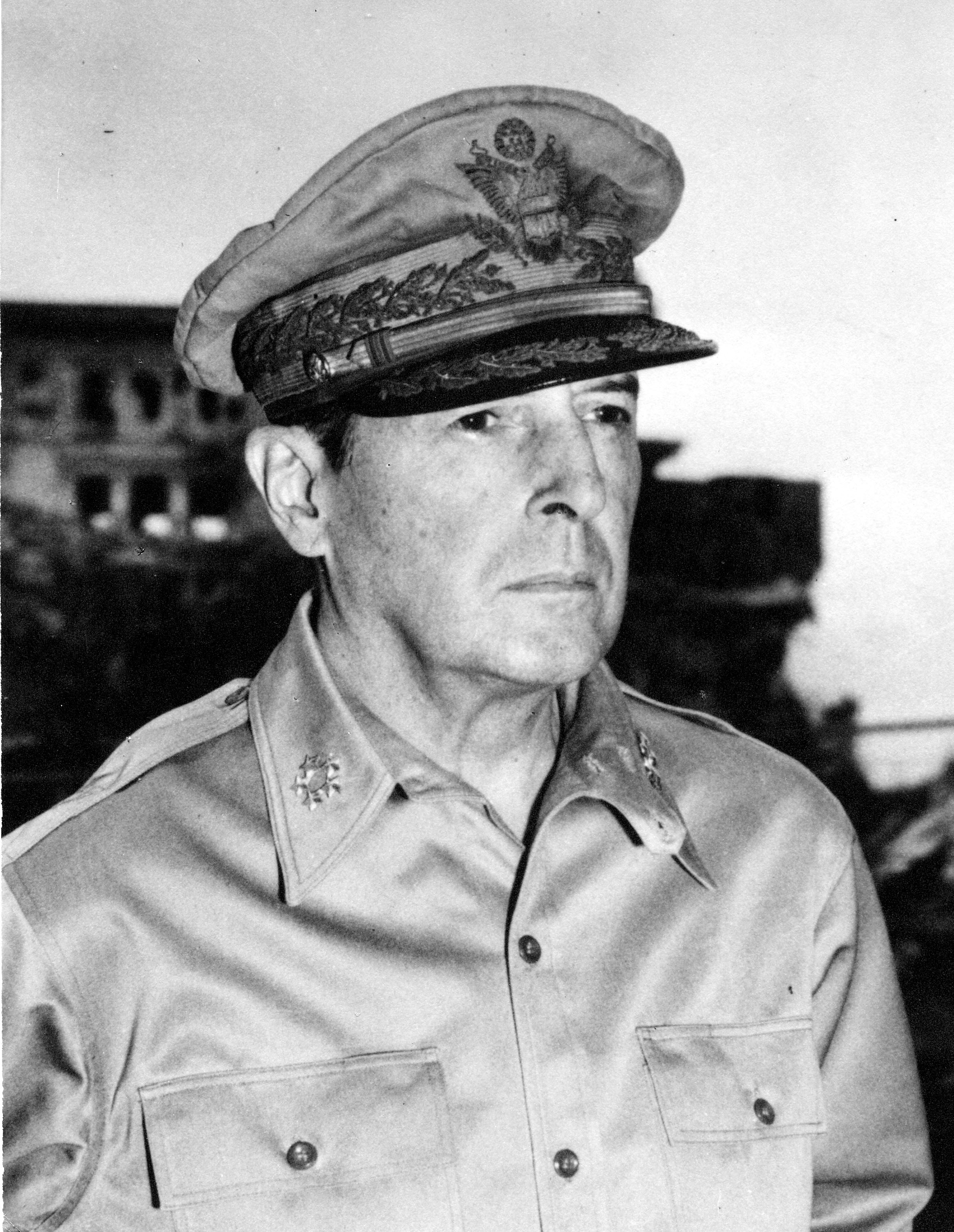 General of the Army Douglas MacArthur Commander in Chief, Far East, ca. 1945